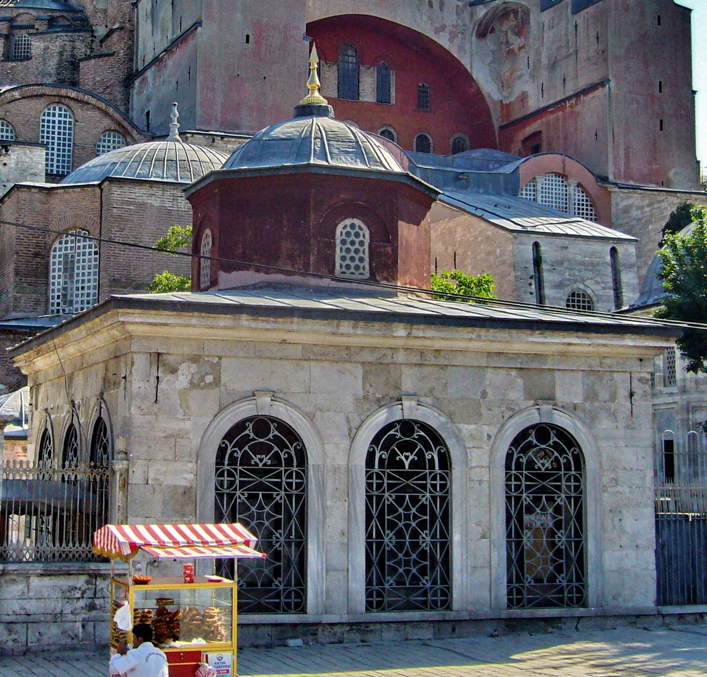 The muvakkithane (prayer timing room) of Hagia Sophia, Istanbul